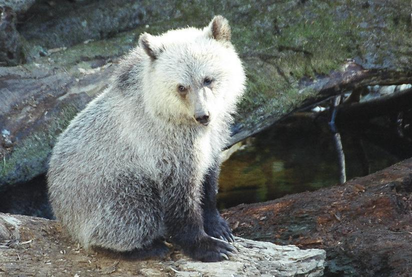 Grizzly cub at Knight Inlet, British Columbia, Canada